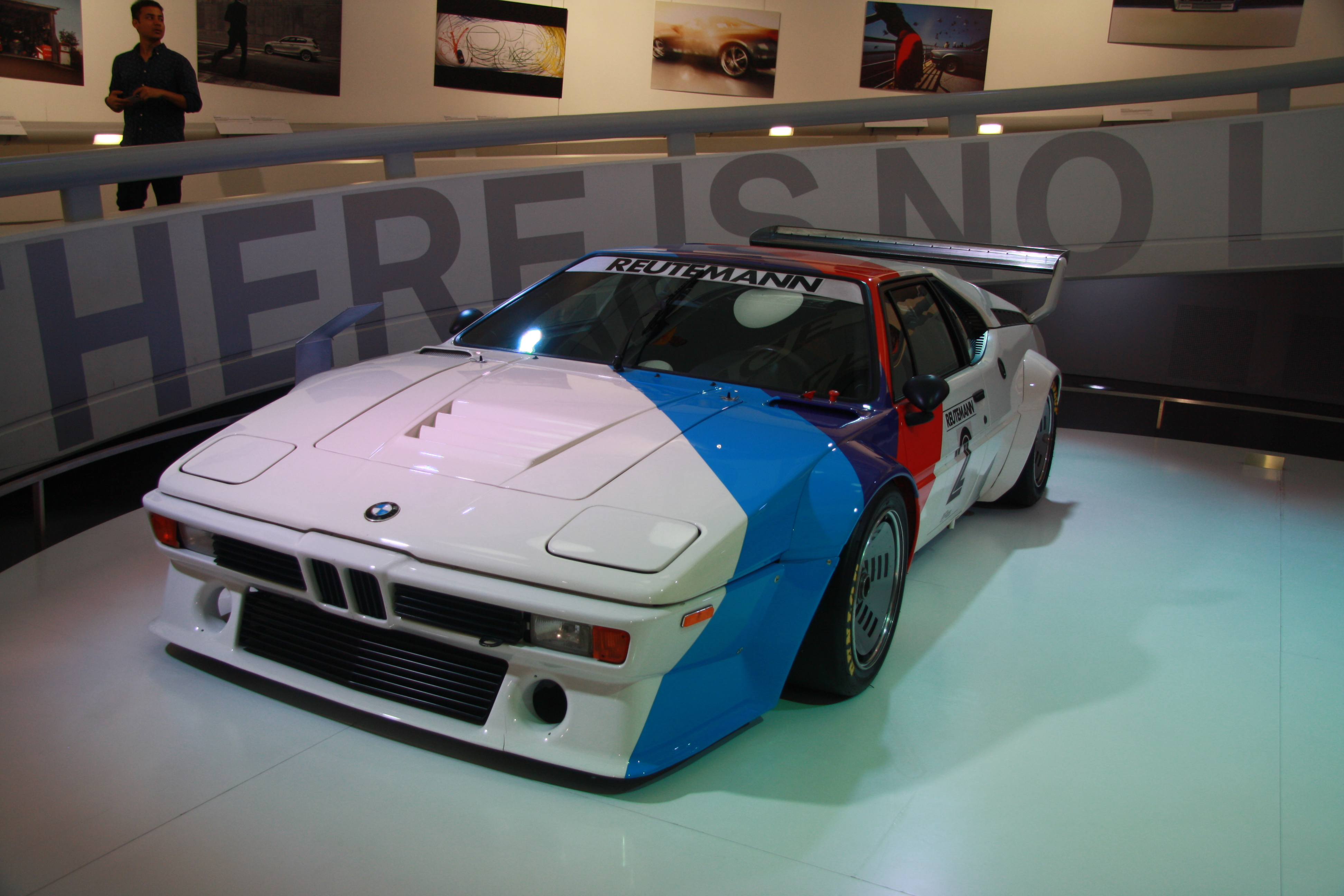 BMW M1 racing car in BMW-Museum in Munich, Bayern.